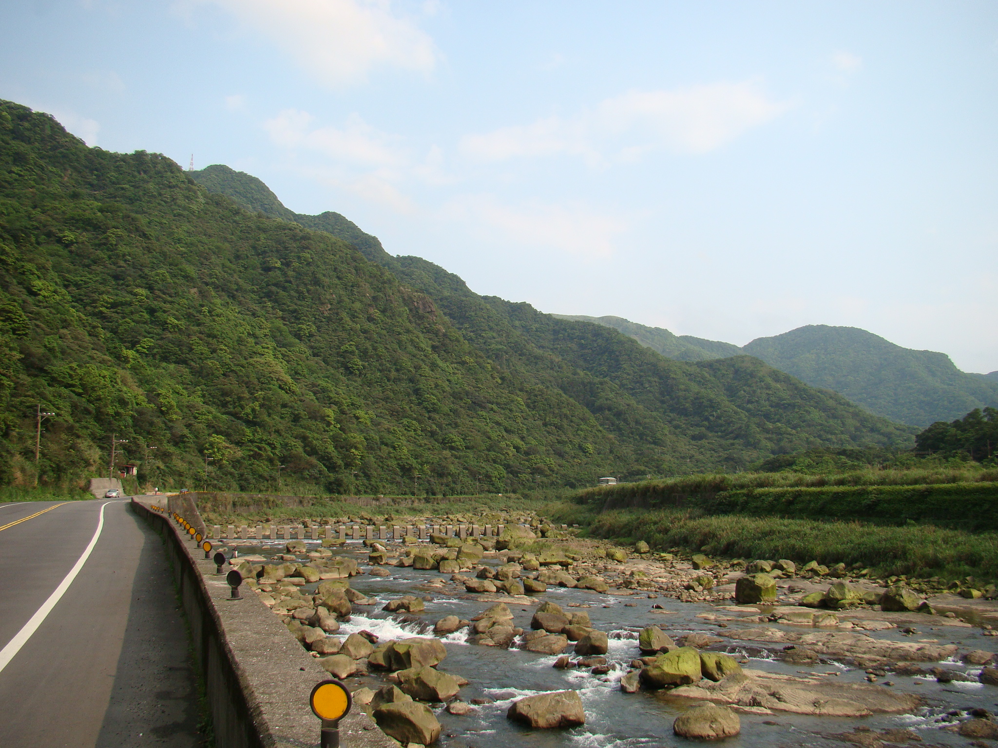 Highway from Rueifang to Houtong , Taiwan.